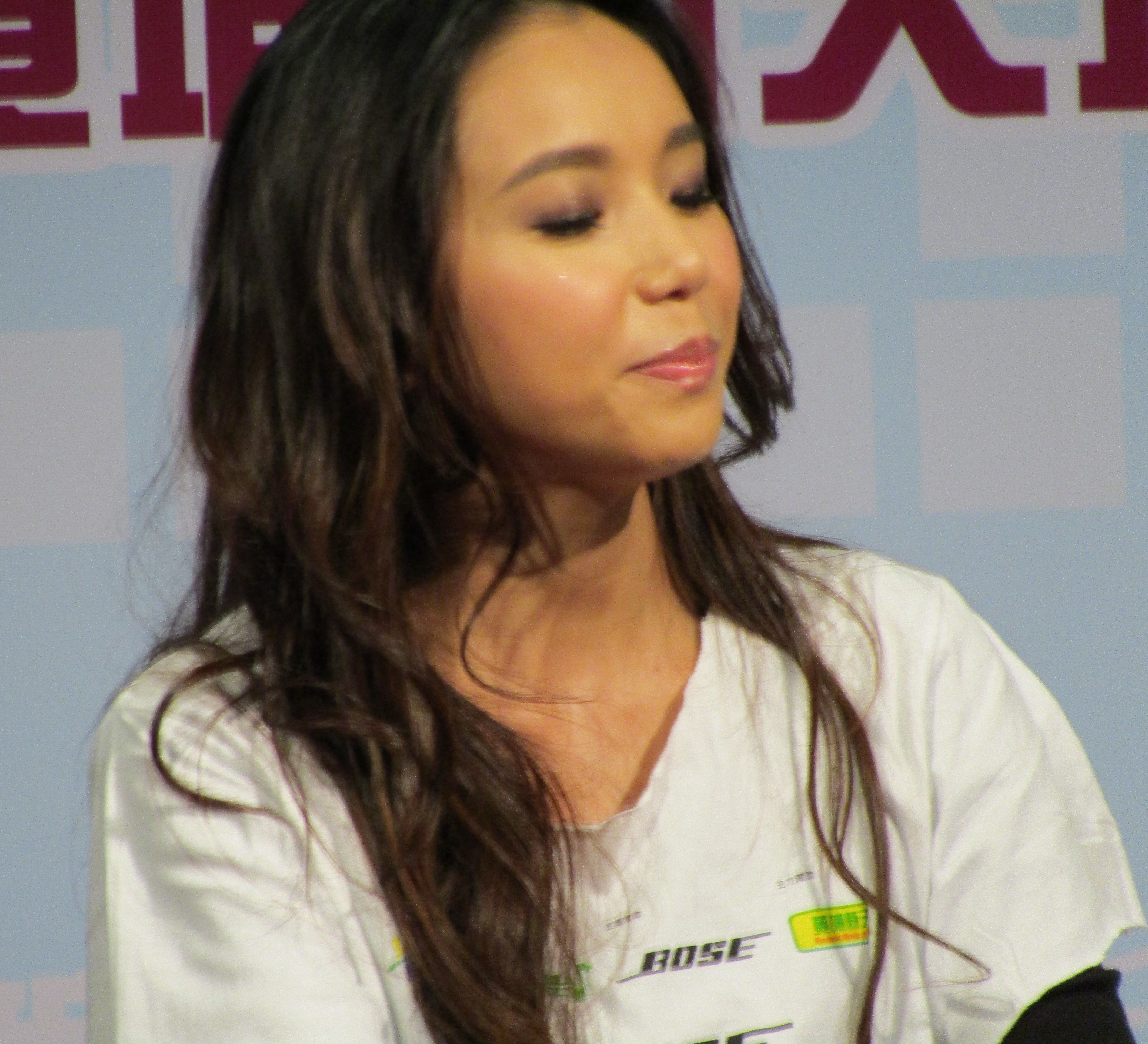 Cathy Leung is singing at Wonderful Worlds of Whampoa, Hung Hom